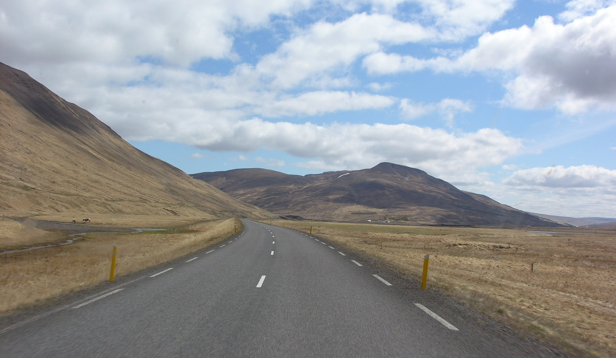 Iceland, views along road Road 1 in Iceland (Hringvegur). Picture is geocoded manually; if someone can contribute to the accuracy, please do so.